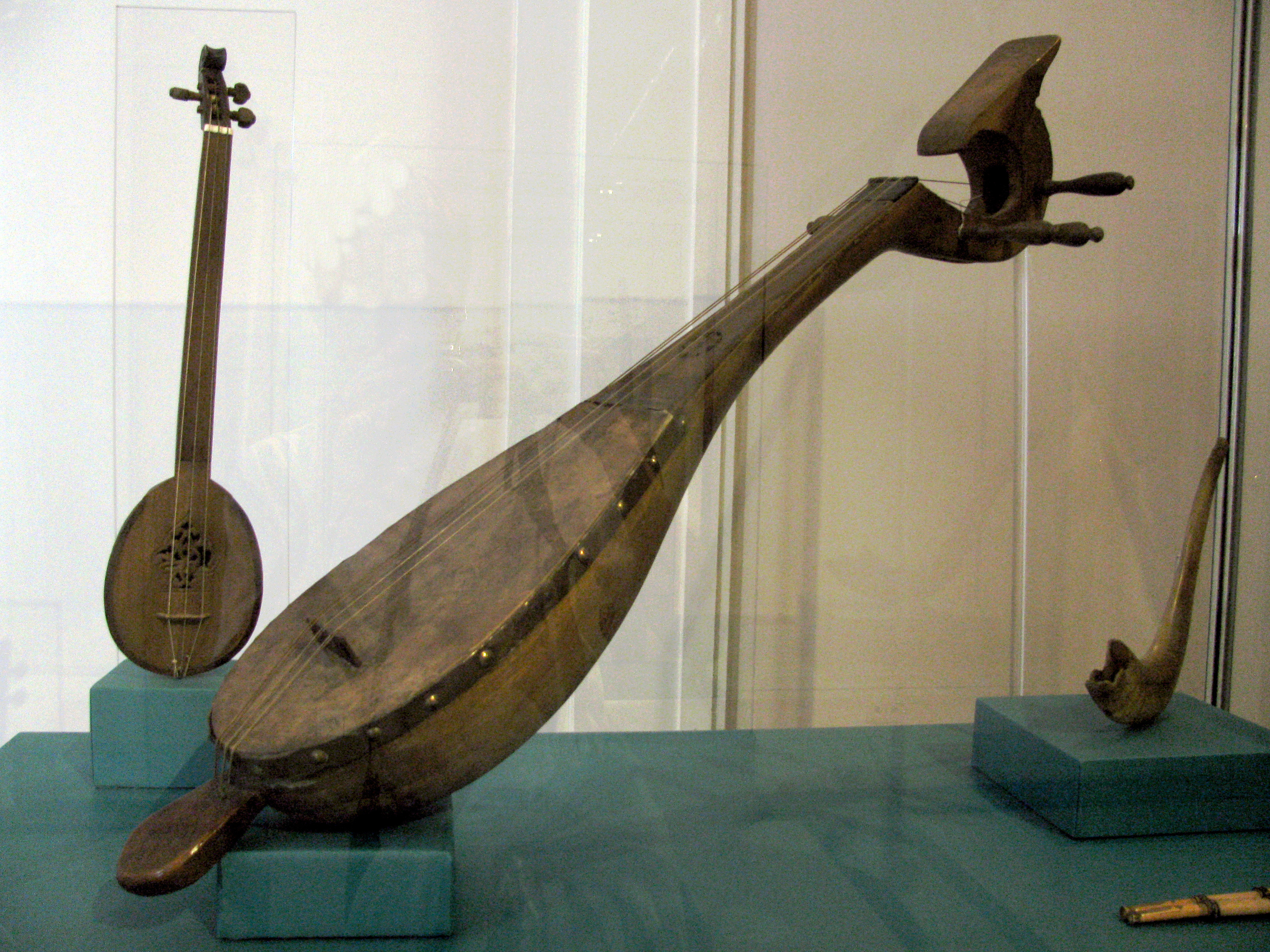 Arab Qanbuz/Qanbus lute